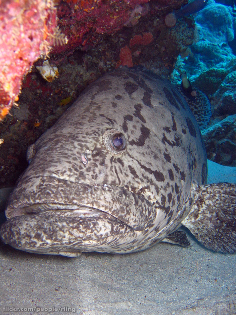 Portrait of a Potato Cod (Epinephelus tukula) resting on sand. Cod Hole, Ribbon Reefs, Great Barrier Reef